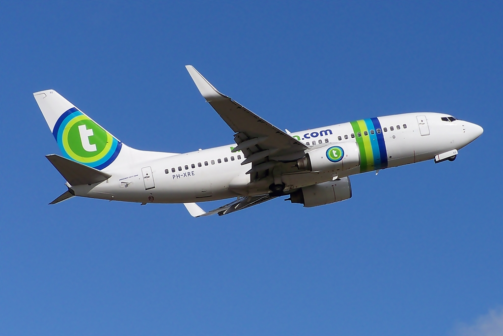 PH-XRE Boeing 737-700 Transavia crew training at Prestwick